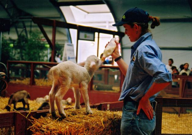 Sydney Royal Easter Show